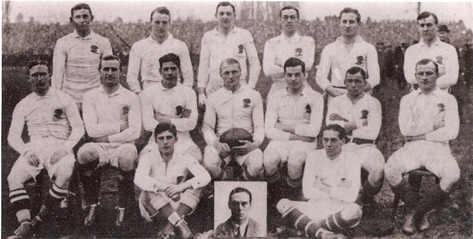 The England national rugby union team before their encounter with South Africa at Twickenham Stadium 4 January 1913